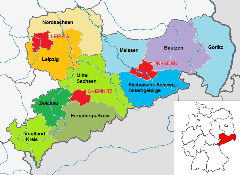 Location map Saxony, showing position of Saxony within Germany. Geographic limits of the map: * N: 51.721° N * S: 50.101° N * W: 11.797° O * E: 15.101° O